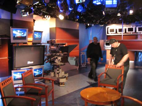 FOX News Channel's The O'Reilly Factor studio